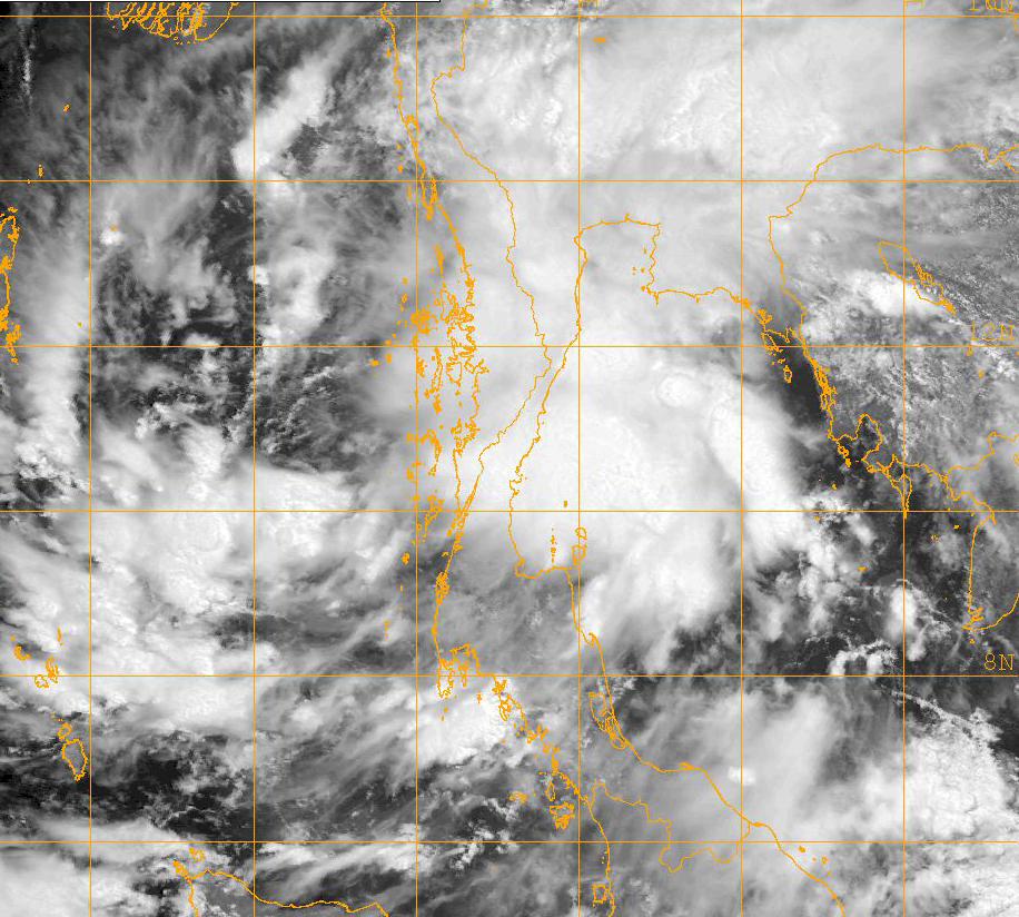 GMS-6 satellite image of a tropical disturbance in the Gulf of Thailand. The Thai Meteorological Department monitored this system as a tropical depression, although it was not designated as such by the Japan Meteorological Agency, the official RSMC for the Western Pacific basin.